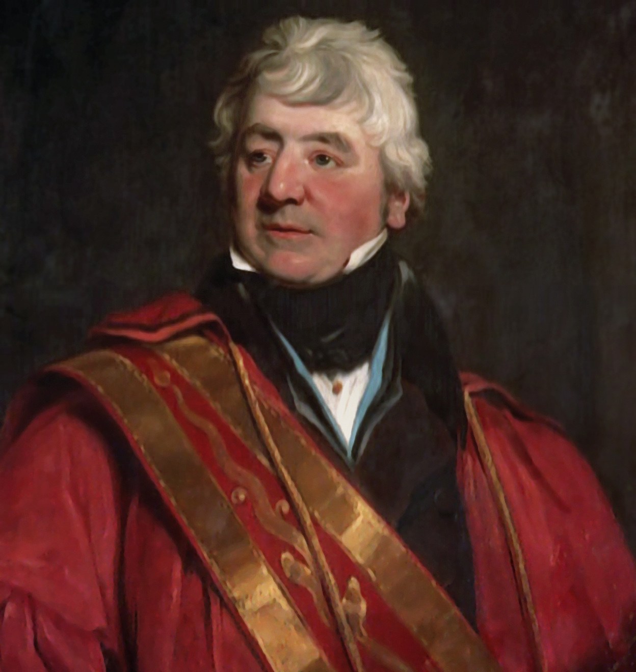 Portrait of John Bacon Sawrey Morritt (1772?–1843), English traveller, politician and dilettante.